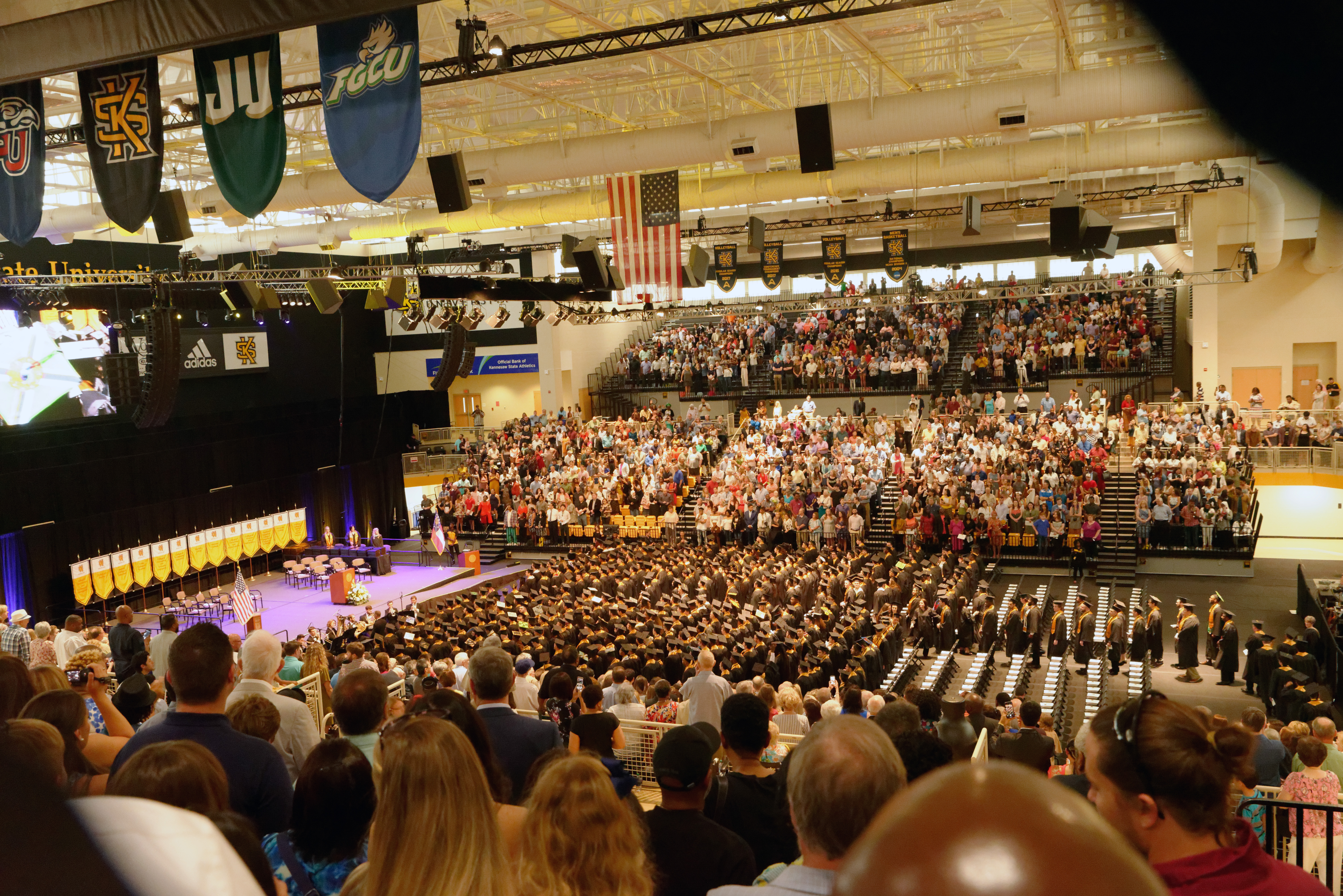 The Convocation Center at Kennesaw State University, Kennesaw, Georgia, US, during a Spring 2019 graduation ceremony